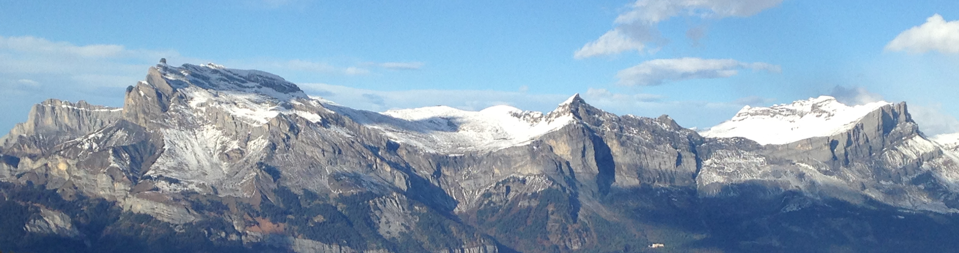 Faucigny massif seen from the Bettex